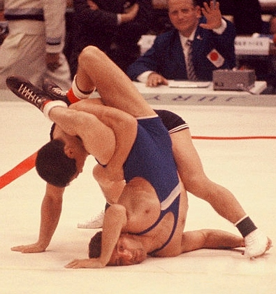 Osamu Watanabe (left) vs. Raúl Romero, freestyle wrestling, 1964 Olympics